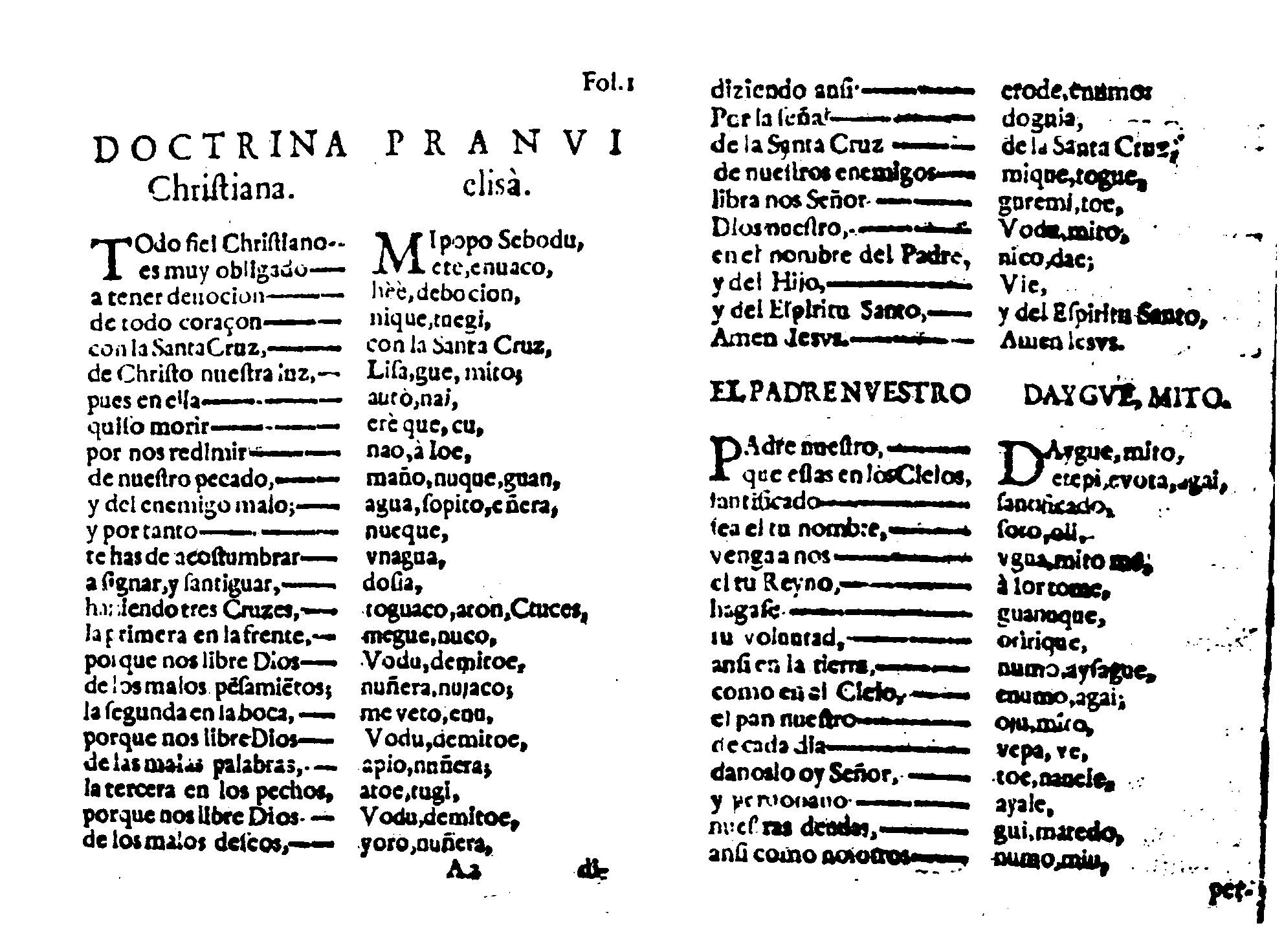 Doctrina Christiana: Y explicacion de sus Misterios en nuestro idiom Español, y en lengua Arda Scan of the first page of the Doctrina Christiana, a catechism translated by Spanish missionaries into one of the Gbe languages (presumably Gen) in 1658. From Labouret & Rivet 1929 (copy sent to me by Enoch Aboh).